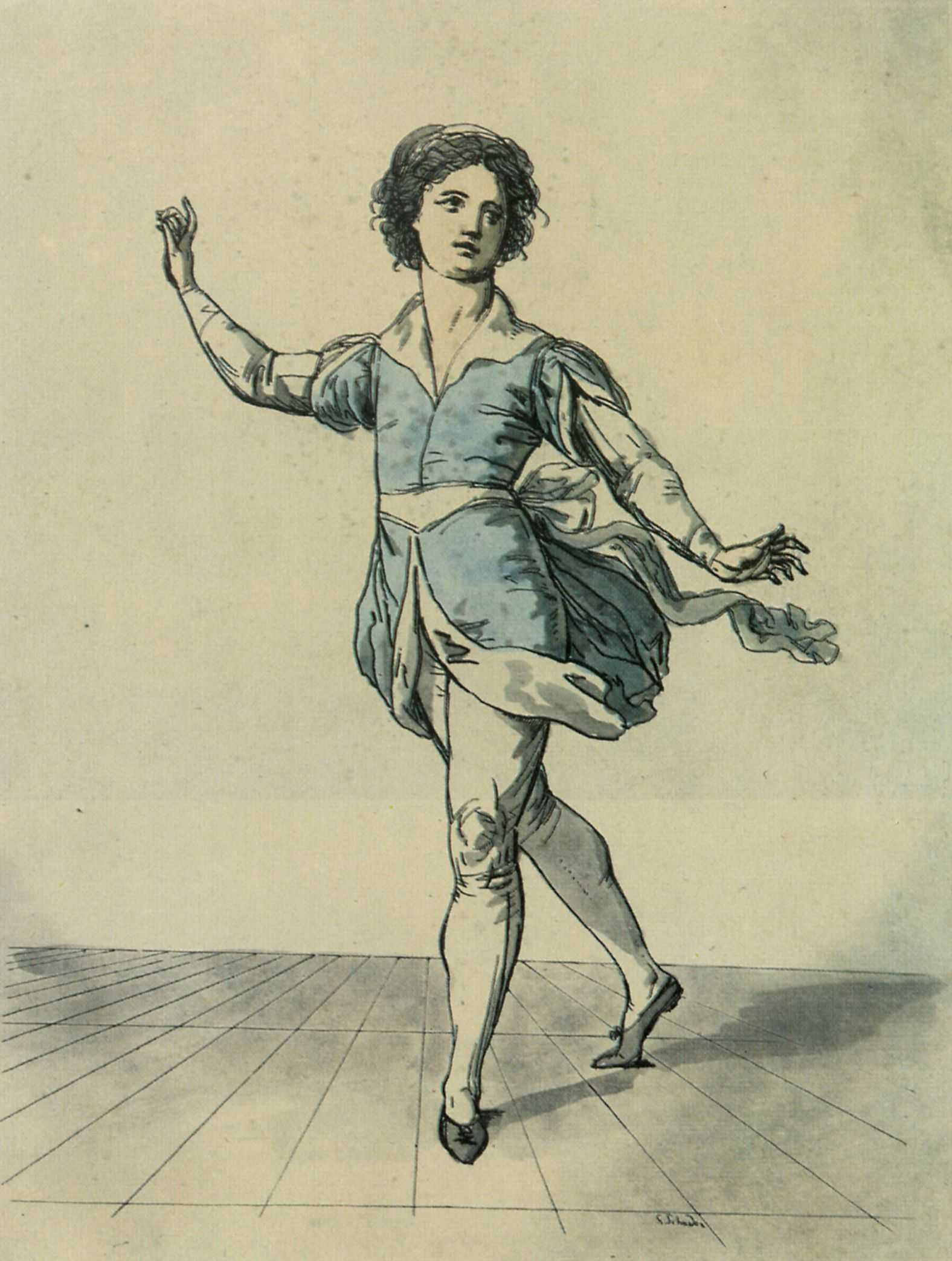 The dancing couple Maria and Salvatore Viganò. Etching with watercolors.